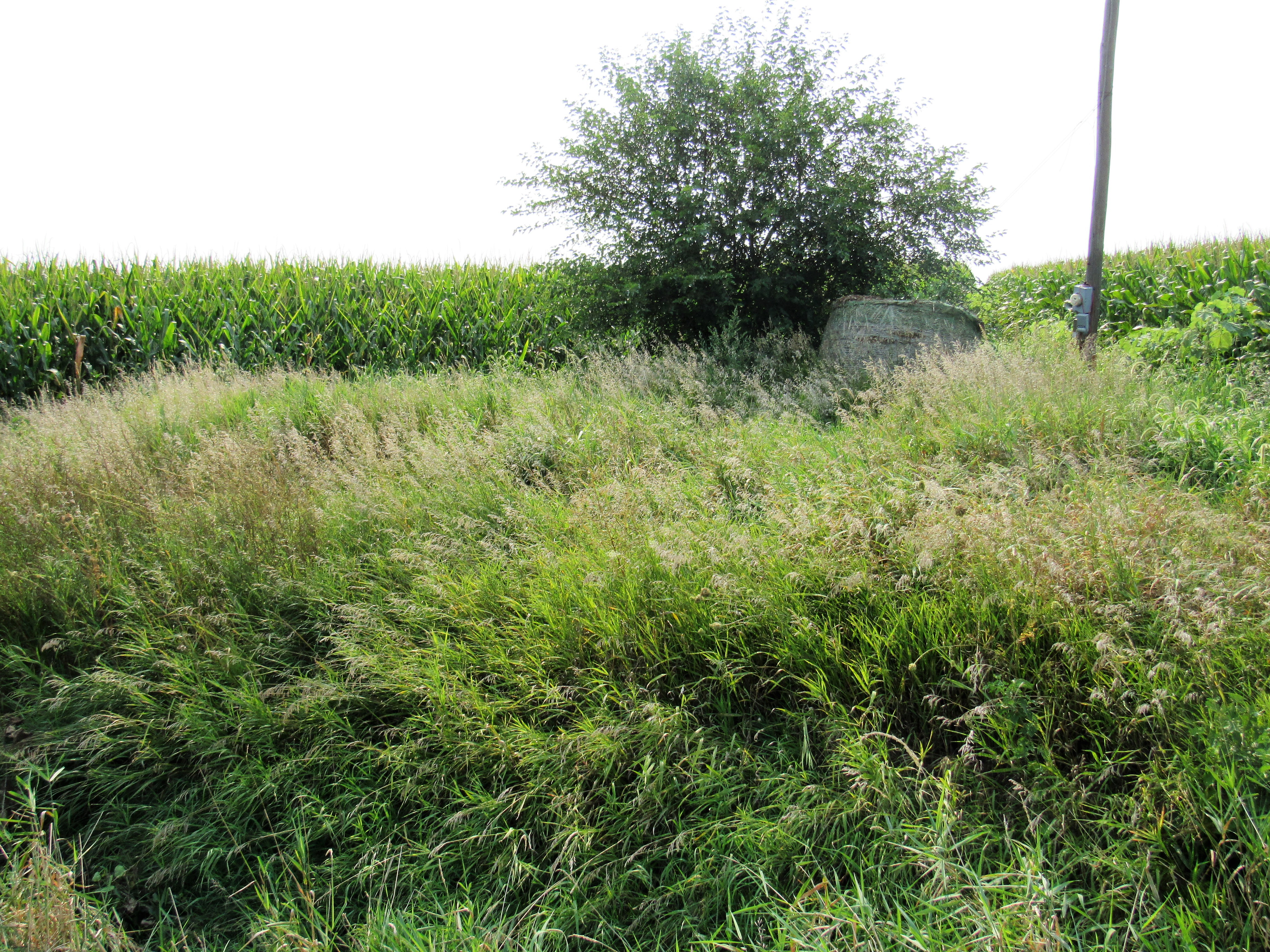 The location of the former Stone School, west of Le Claire, Iowa.